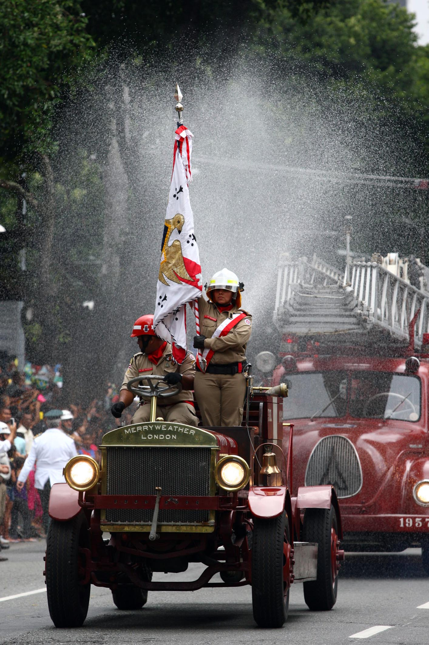 Vehicle of Firefighters - CBM PMBA - Brazil.